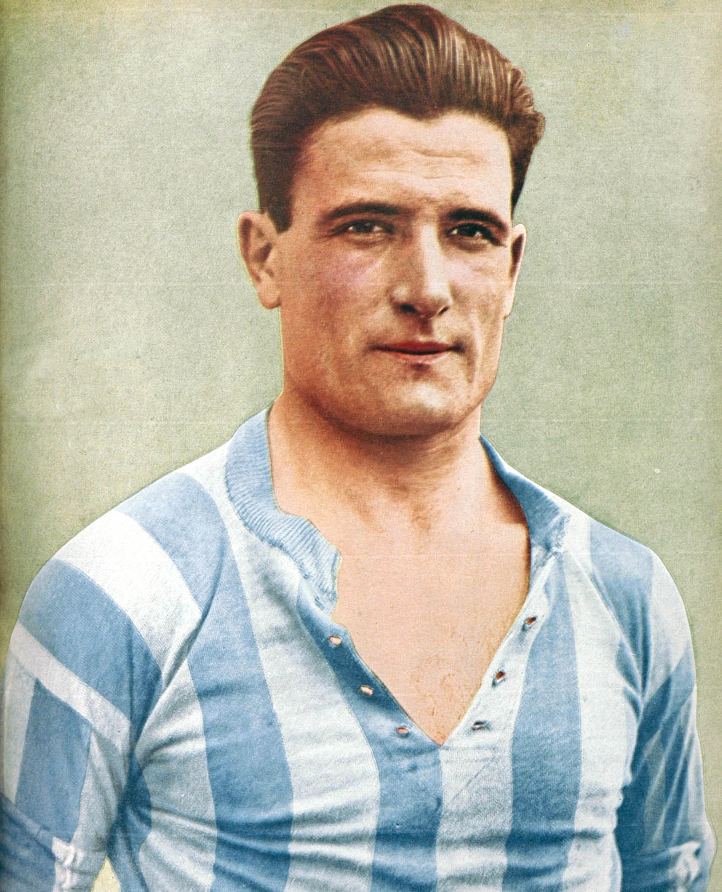 Argentine footballer Luis Monti, pictured on the cover of El Gráfico.